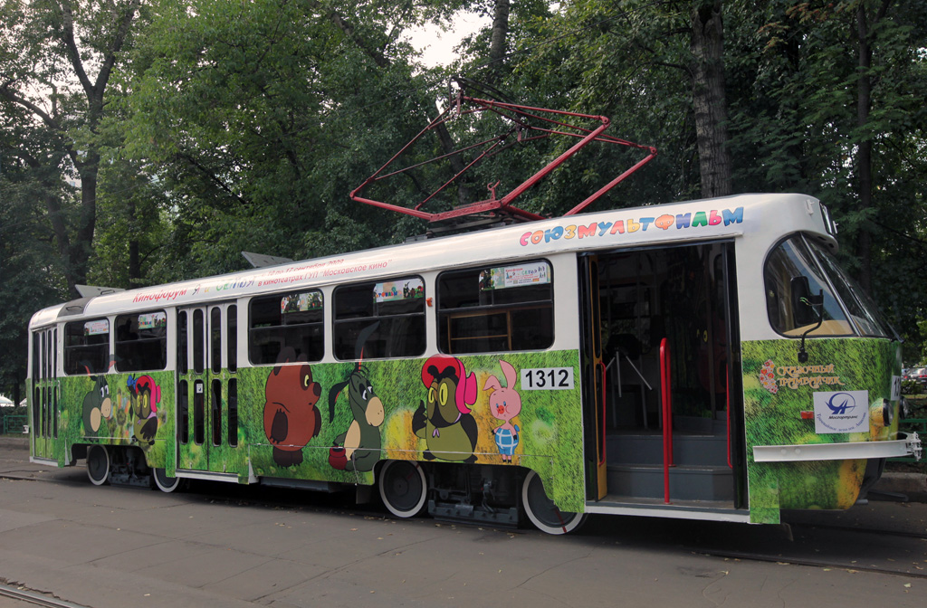 “The first of the "Fairy Streetcar" project launched in Sokolniki”. "Winnie the Pooh" streetcar at the opening of the "Fairy Streetcar" project in Sokolniki Park.